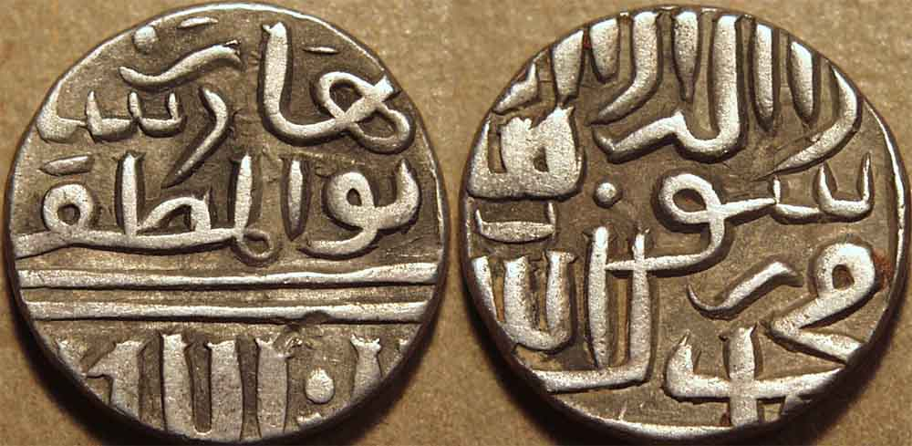 Silver tanka of Baz Bahadur of Malwa (ruled 1555-1562)